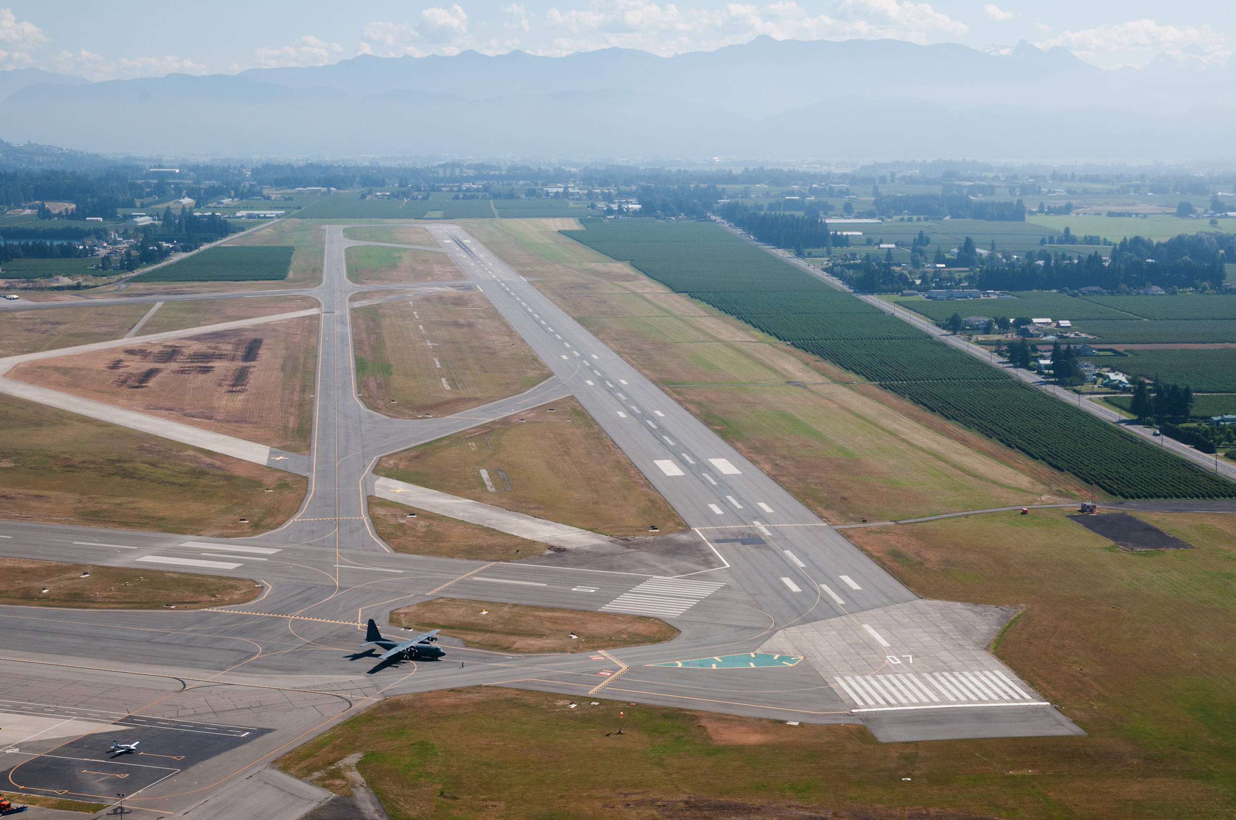 YXX rwy 0725